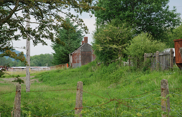 Derry Ormond station. Originally named Bettws after the nearby village, it was renamed to Derry Ormond, after the estate of a local influential landowner. Since 643903 was taken, it seems to have become a dumping ground for all manner of derelict machinery, a quite common occurrence around here. Perhaps planning rules don't apply.